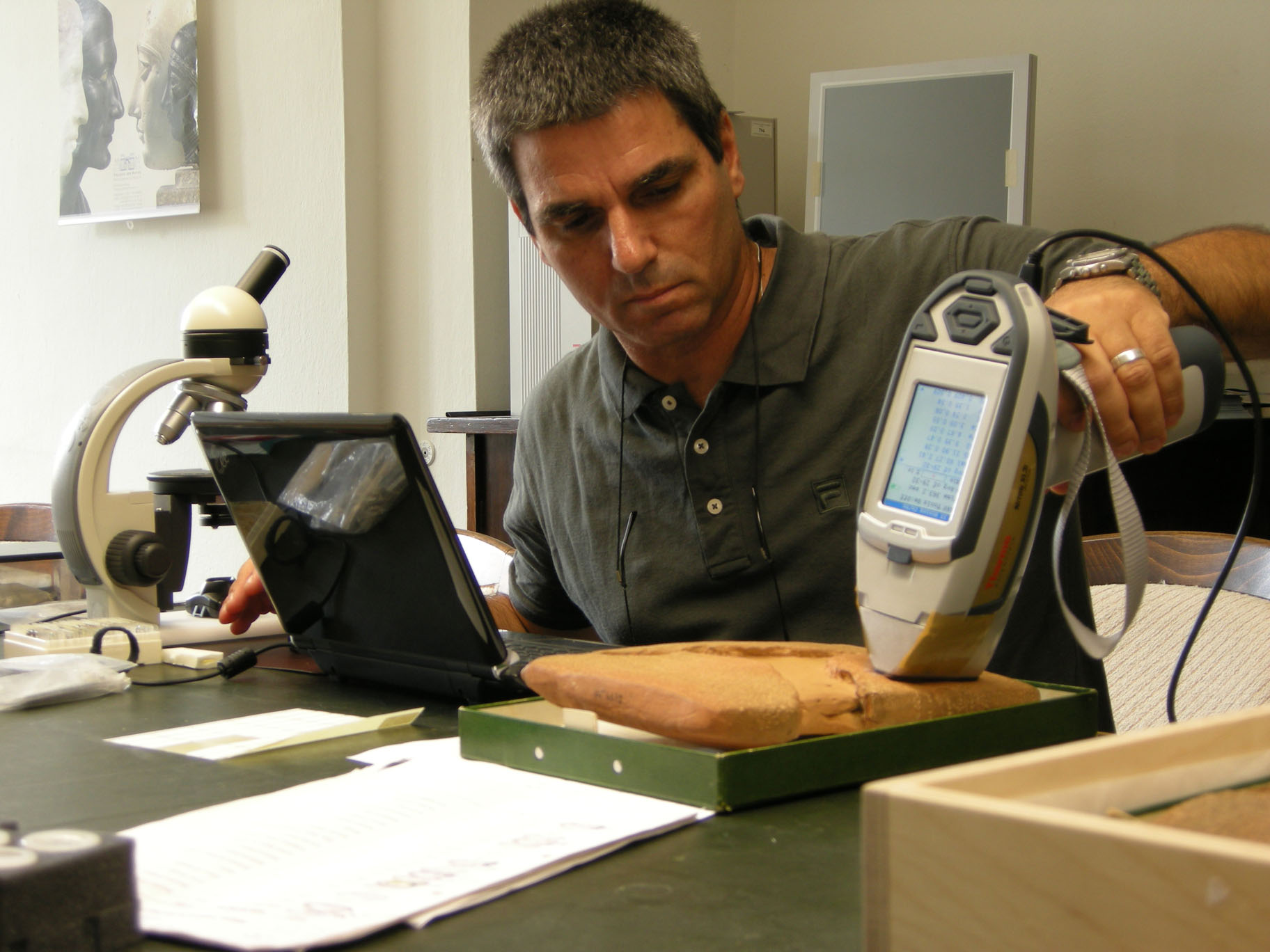 Y. Goren examining ancient cuneiform tablets by portable XRF